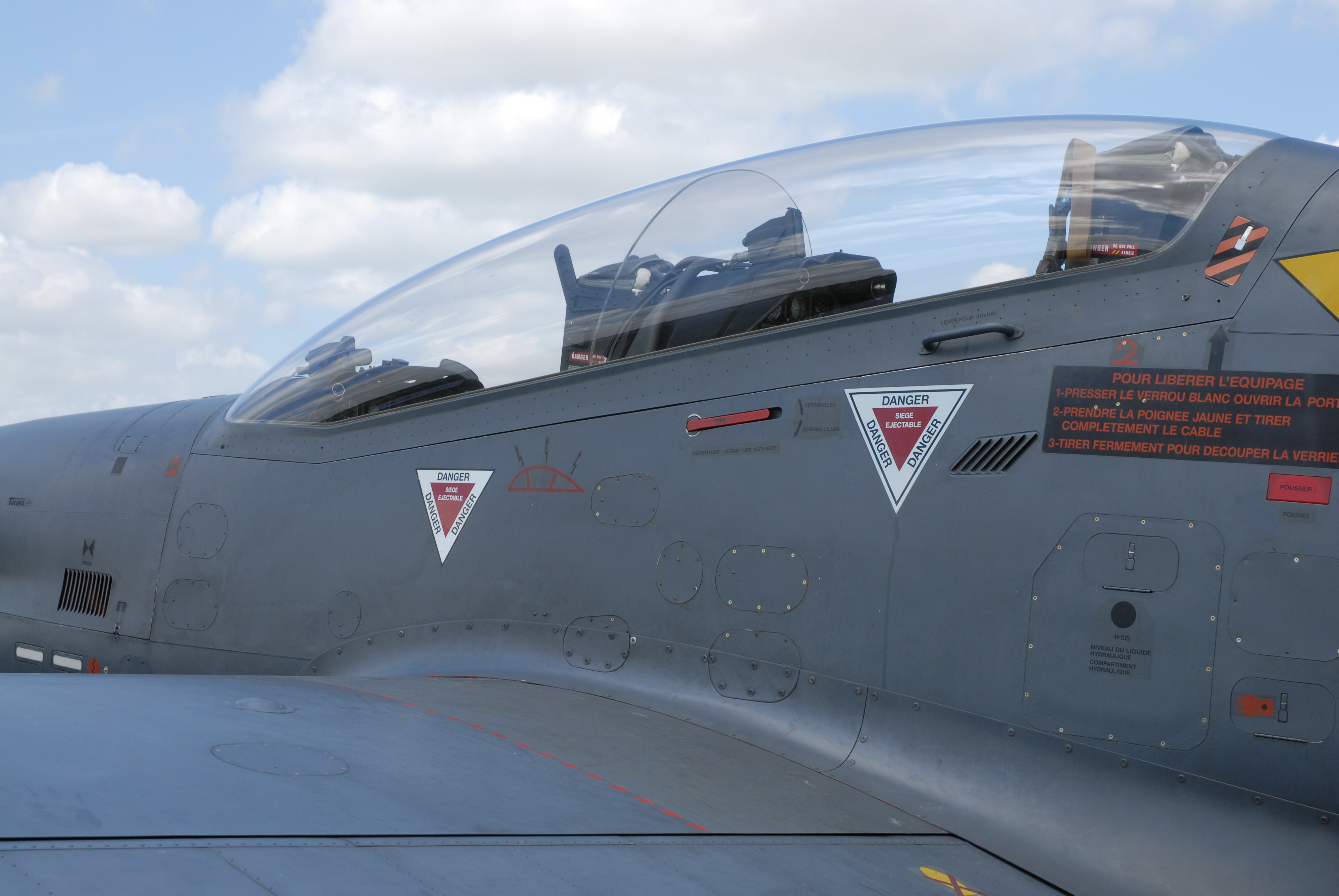 Embraer EMB 312 TucanoManufacturerEmbraer (Brazil)ModelEmbraer EMB 312 TucanoTypemilitary trainingCharacteristicstwo-seaterRegistration ID312-UB